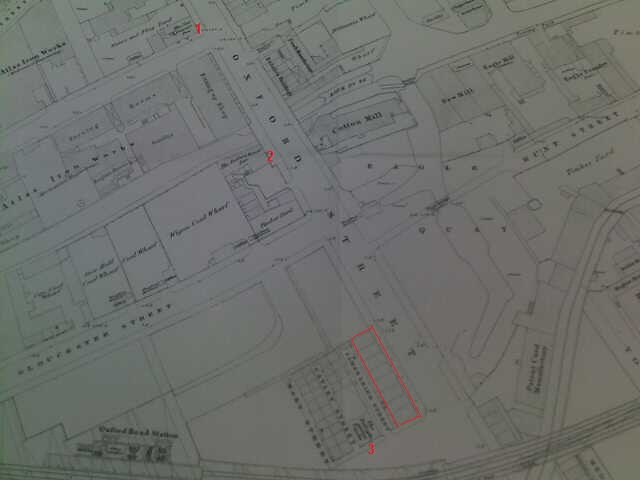 Map of Oxford Road, Manchester. Grand Central Pub has been highlighted.